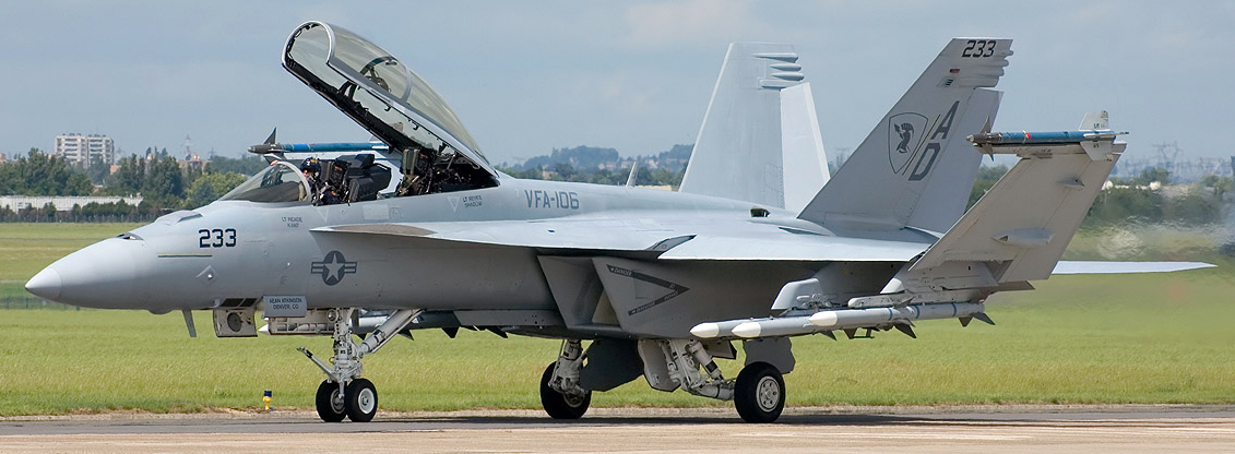 F/A-18F Super Hornet at Paris Air Show 2007